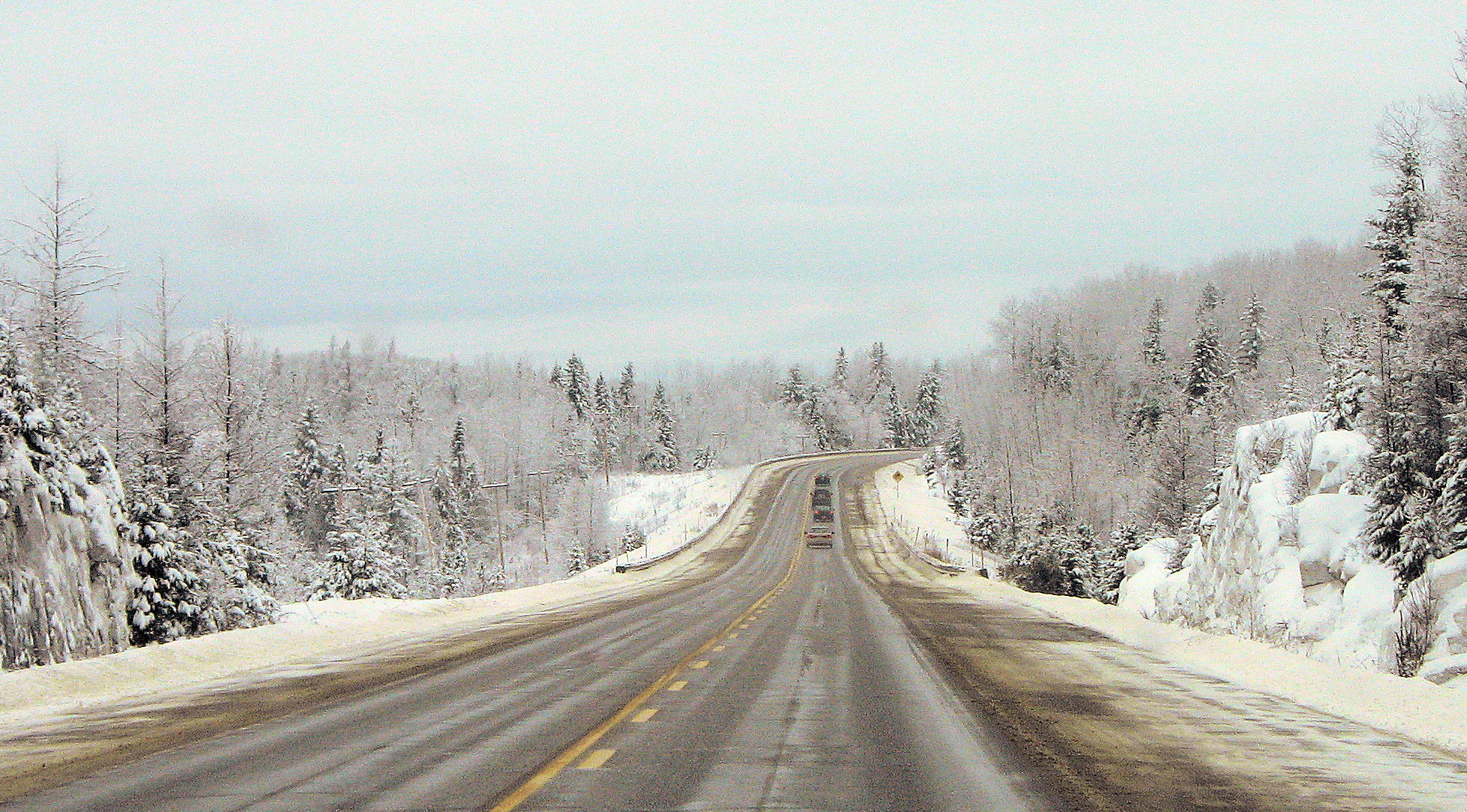 Author: P199